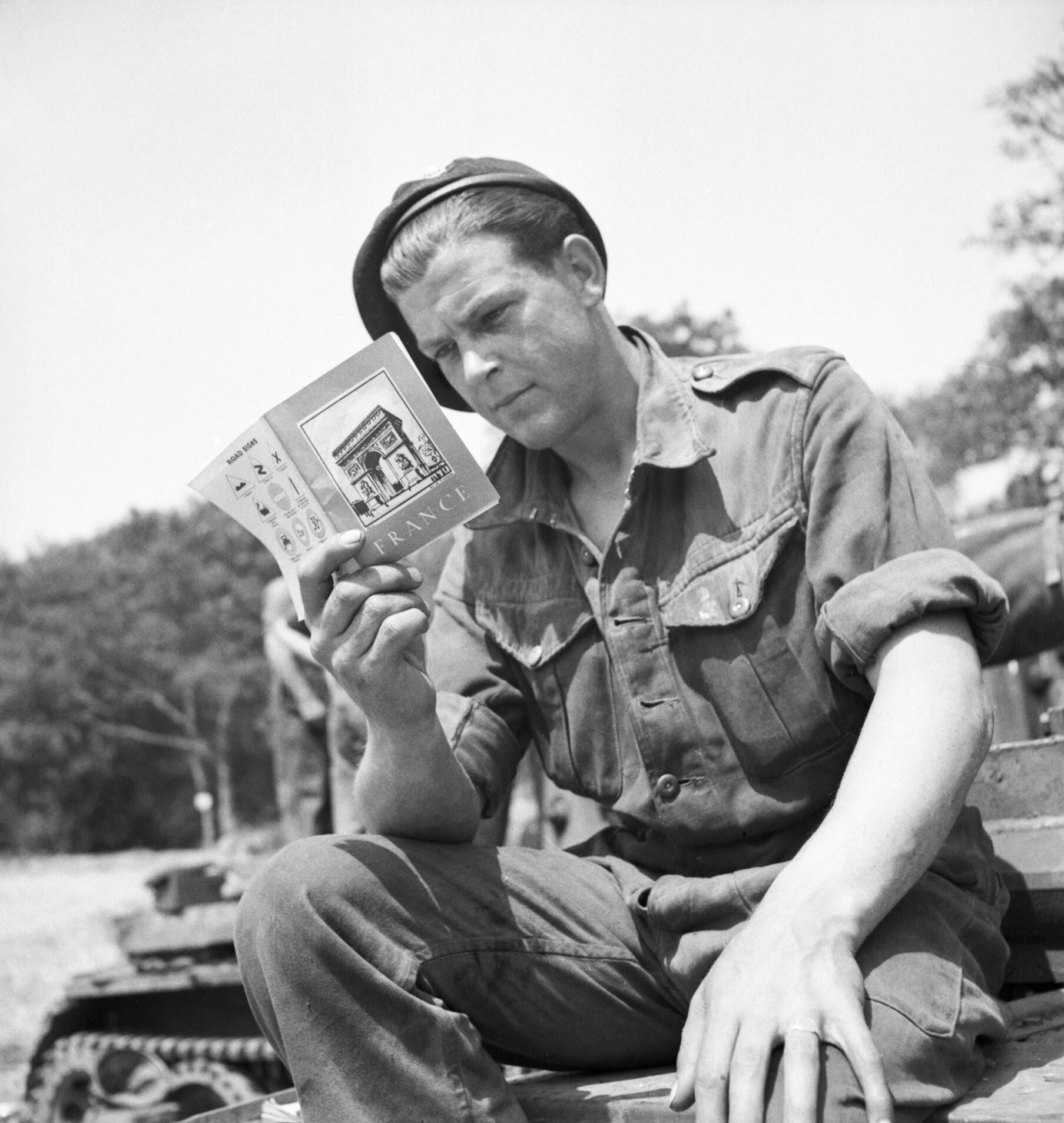 A soldier from 101st Light Anti-Aircraft Regiment prepares for D-Day by reading his French handbook at a camp near Portsmouth, 29 May 1944. A soldier from 101st Light Anti-Aircraft Regiment (12th King's Regiment (Liverpool)) 3rd Division, prepares for D Day by reading at his French handbook at Camp A2 at Emsworth, near Portsmouth, Hampshire, 29 May 1944.